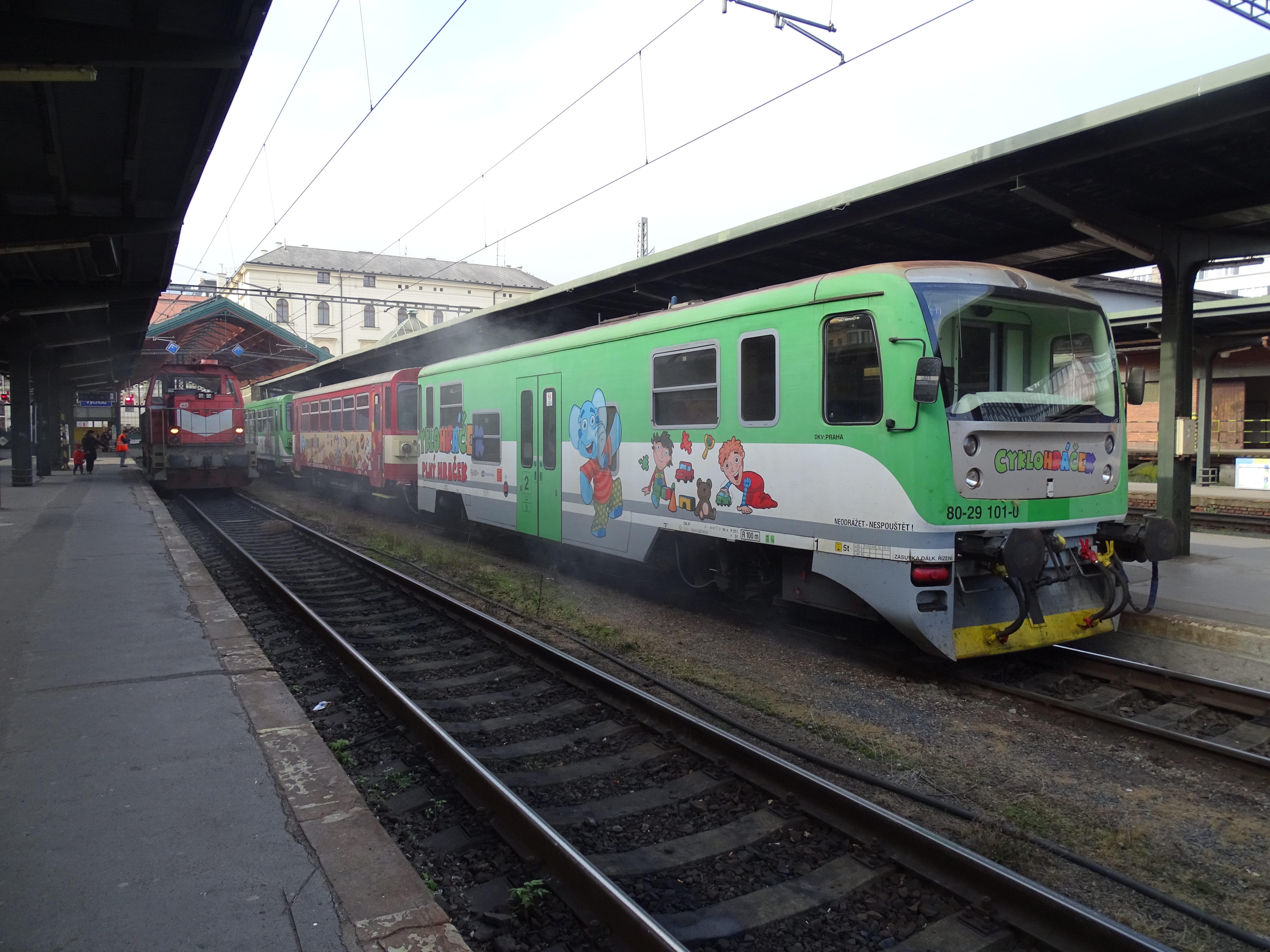 Prague-New Town, Czechia, Praha Masarykovo nádraží, Cyklohráček train.